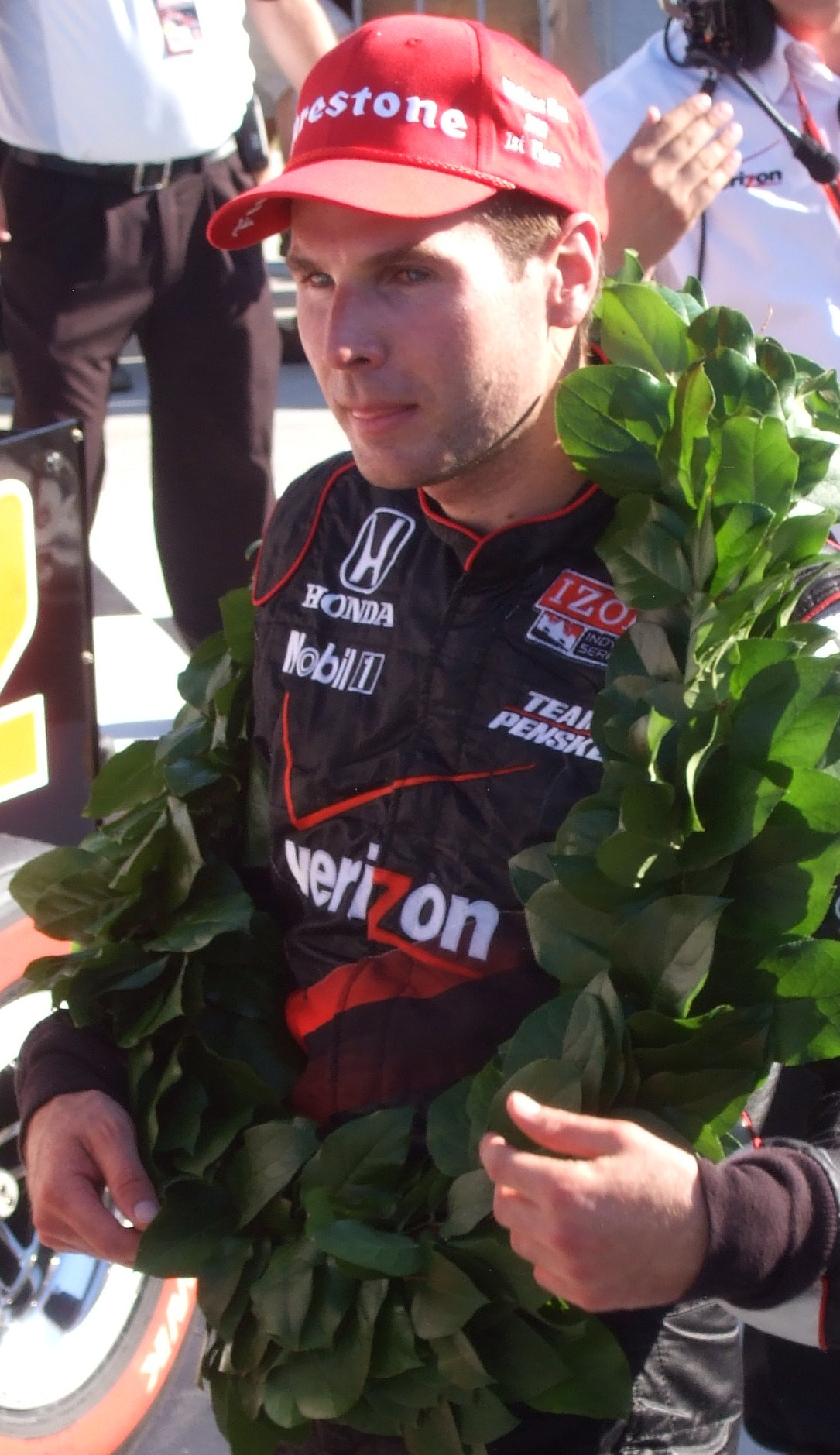 Will Power after winning 4 July 2010 IZOD IndyCar race at Watkins Glen.